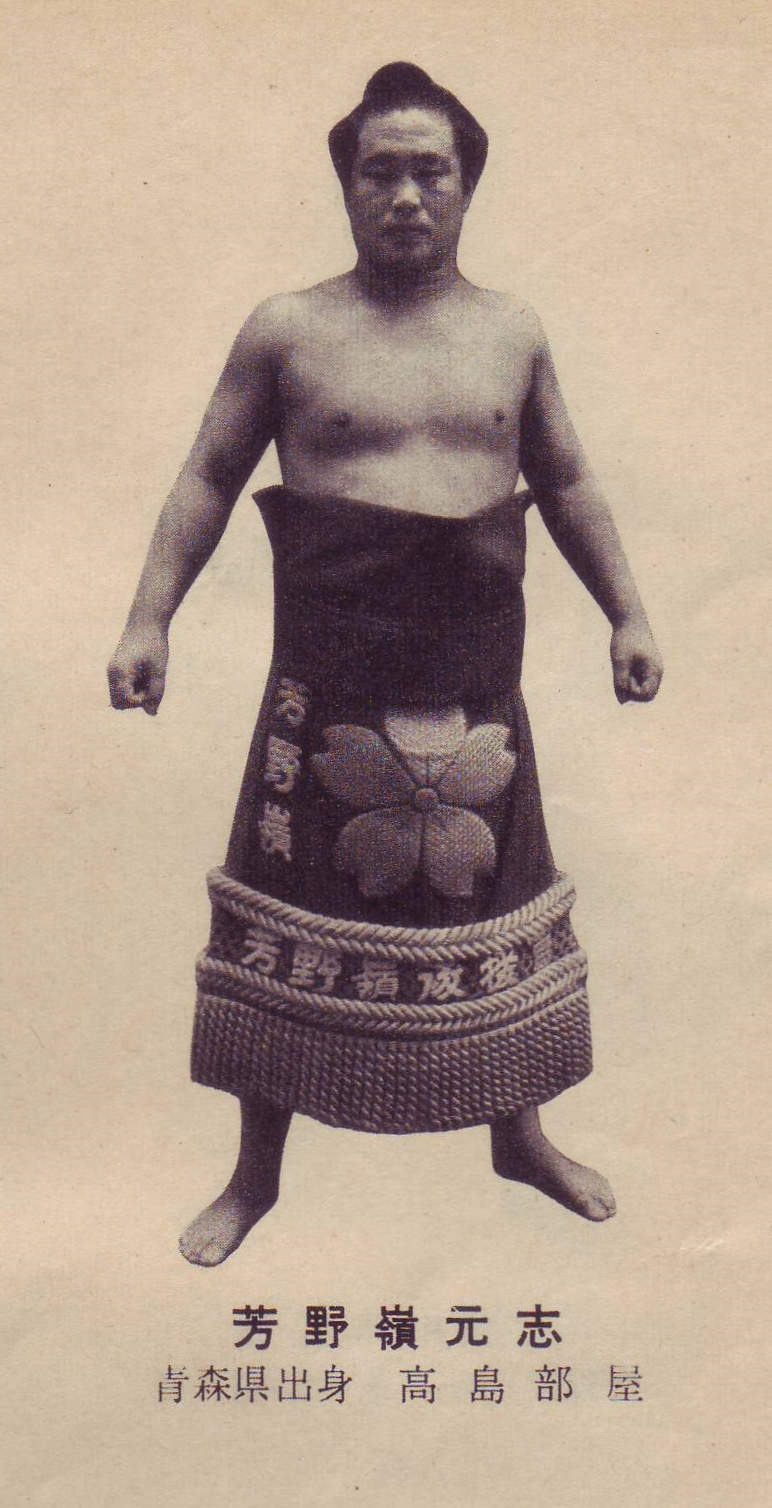 Yoshinomine Motoshi (Sumo wrestler from Japan). taken in 1958, or before that.